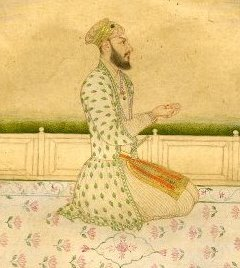 Album leaf. Portrait. Bidar Bakht. On paper. Portrait of Bidar Bakht; single-page drawing mounted on a detached album folio. Bidar Bakht was the son of Muhammad Azam and grandson of Aurangzeb. He is seated on a terrace and faces right. Drawing is bordered by concentric gilt bands and is mounted onto a page bearing gilt floral patterning. Ink, gold and opaque watercolours on paper.